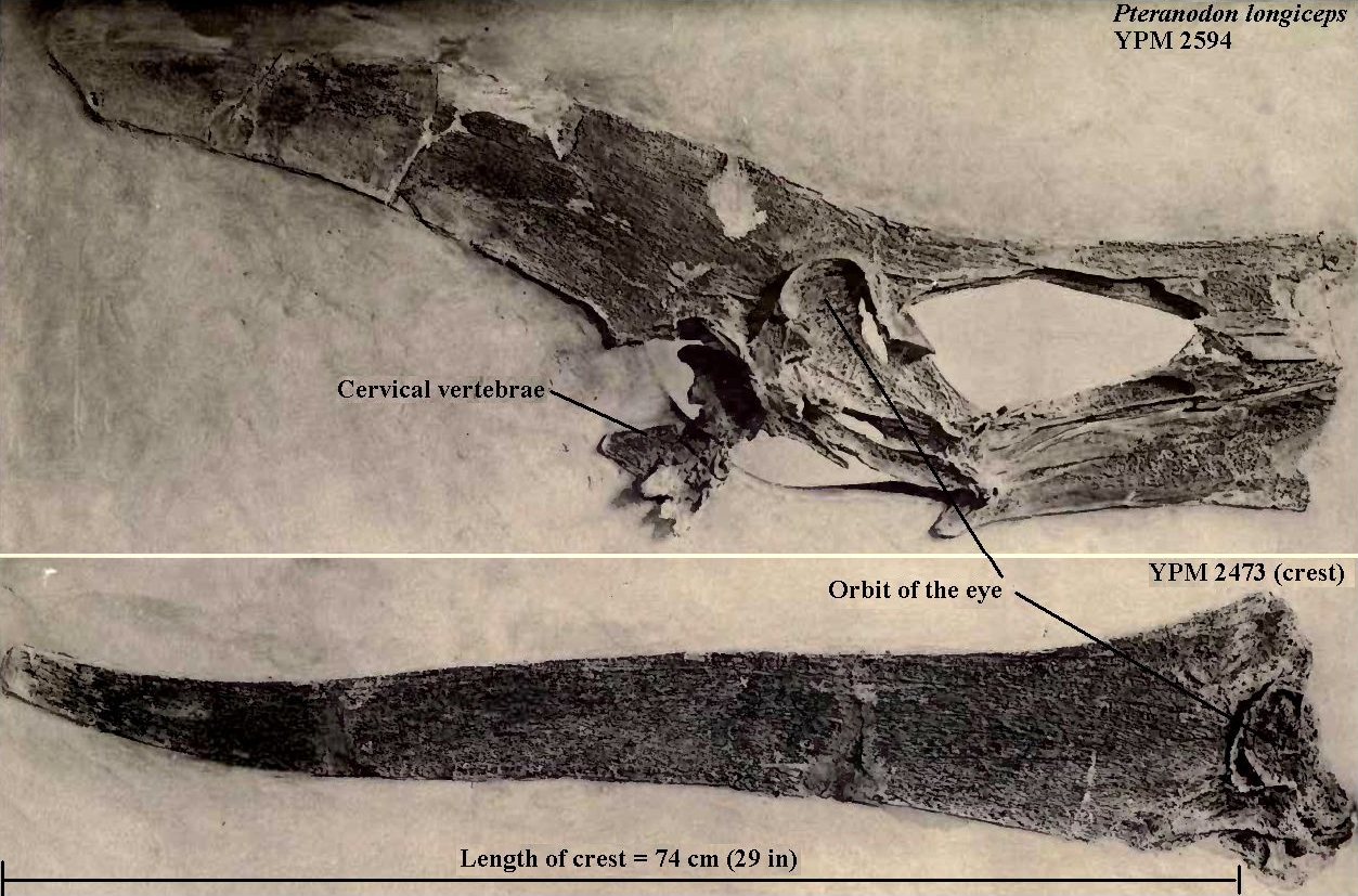 Photos of Pteranodon longiceps specimens YPM 2594 and 2493 from Eaton (1910). Image and text has been reflipped, as description on website states the images were flipped.